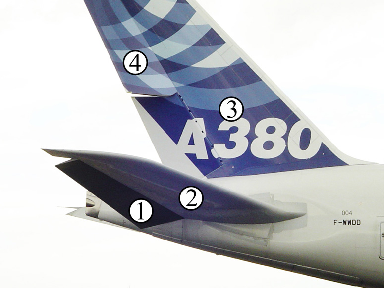 numbered tail of an Airbus A380